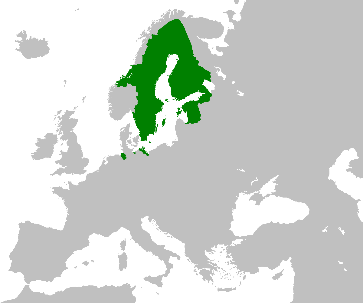 Map of the Swedish Empire at its greatest extent, in year 1658. Overseas possessions are not shown.